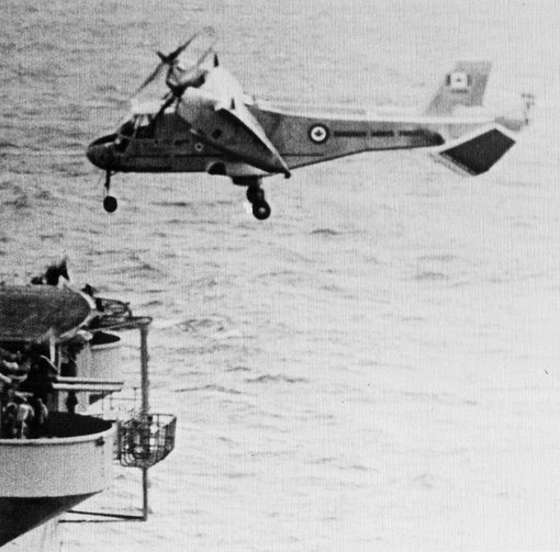 A Canadair CL-84 Dynavert landing on the U.S. Navy amphibious assult ship USS Guam (LPH-9). the CL-84 was a V/STOL turbine tiltwing monoplane designed and manufactured by Canadair between 1964 and 1972. The shown first CL-84-1 (CX8401) was lost on 8 August 1973 when a catastrophic failure occurred in the left propeller gearbox in a maximum power climb. The U.S. Navy and U.S. Marine Corps pilots aboard ejected safely. The entire propeller and supporting structure of the gearbox had broken away during the climb. It was rumoured that the pilots had attempted to set an unauthorized climb record to 10,000 ft (3,000 m) to take that distinction away from the McDonnell F-4 Phantom II that had held it.